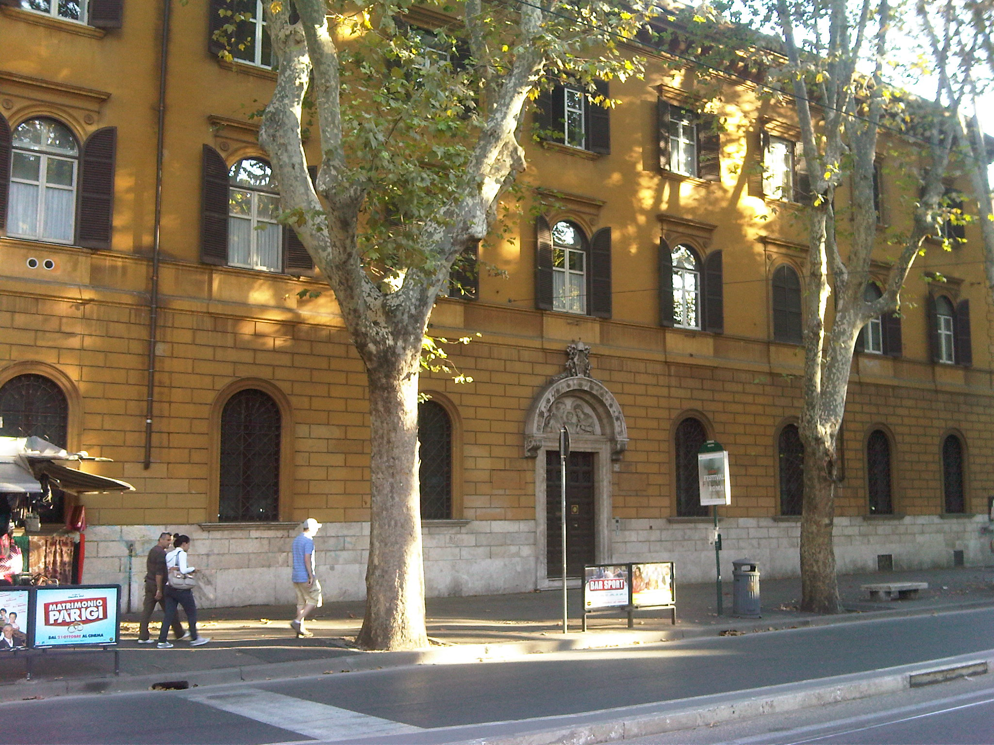 Pontifical Institute of Arab and Islamic Studies (PISAI), Headquarter, Viale di Trastevere 89, 00153 Roma/IT